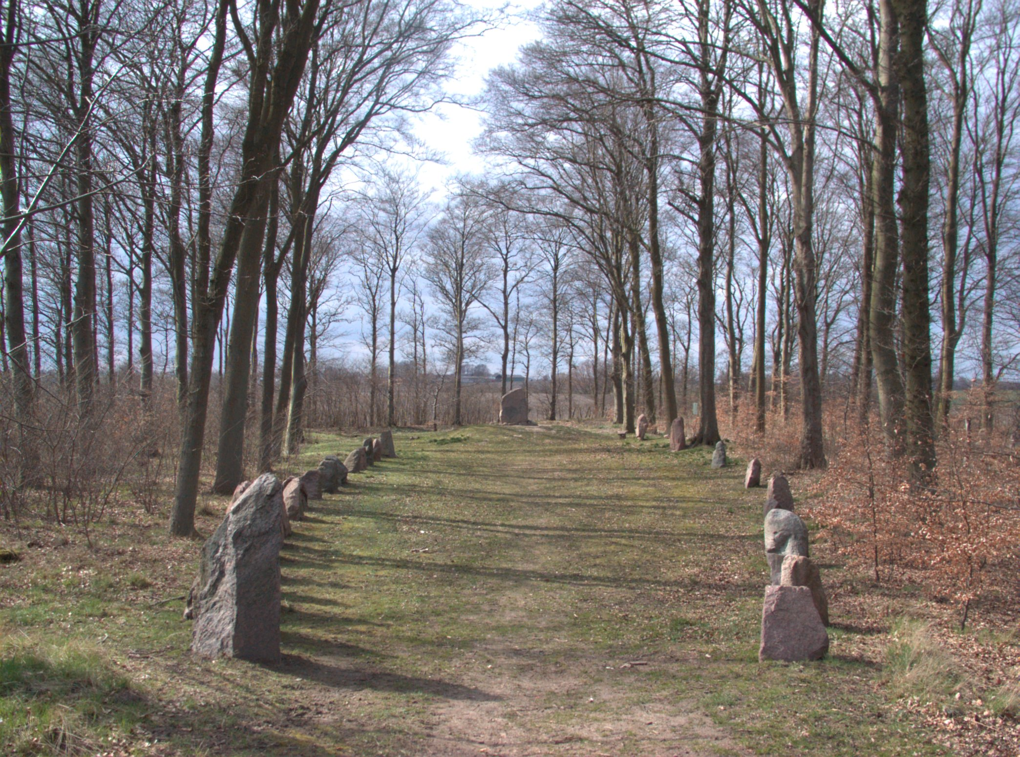 The Glavendrup stone ship on northern Funen in Denmark.